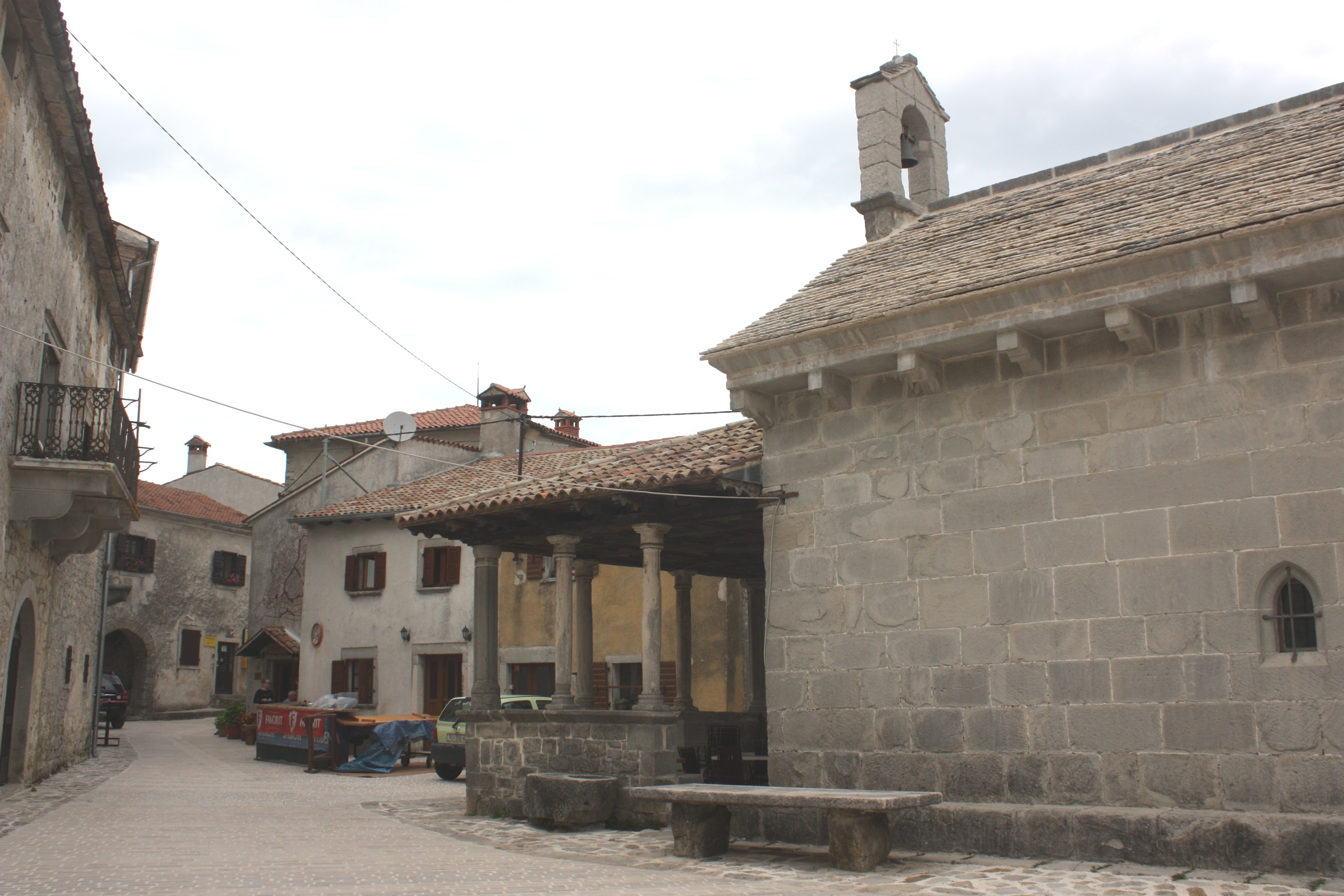 Gračišće, Saint Mary the Virgin Church